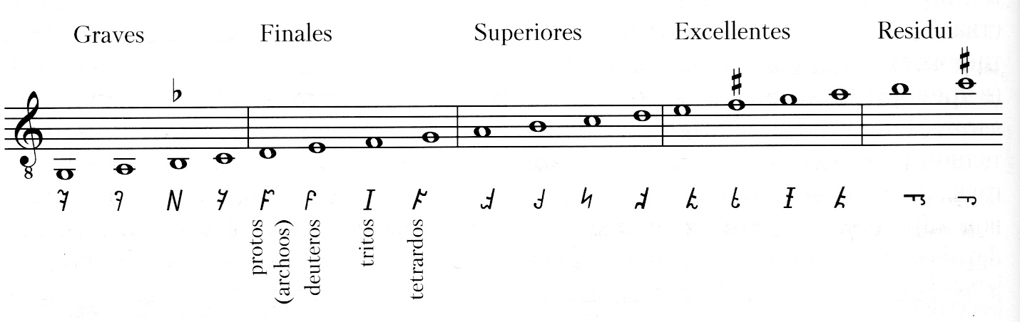 Daseian scale (medieval music)